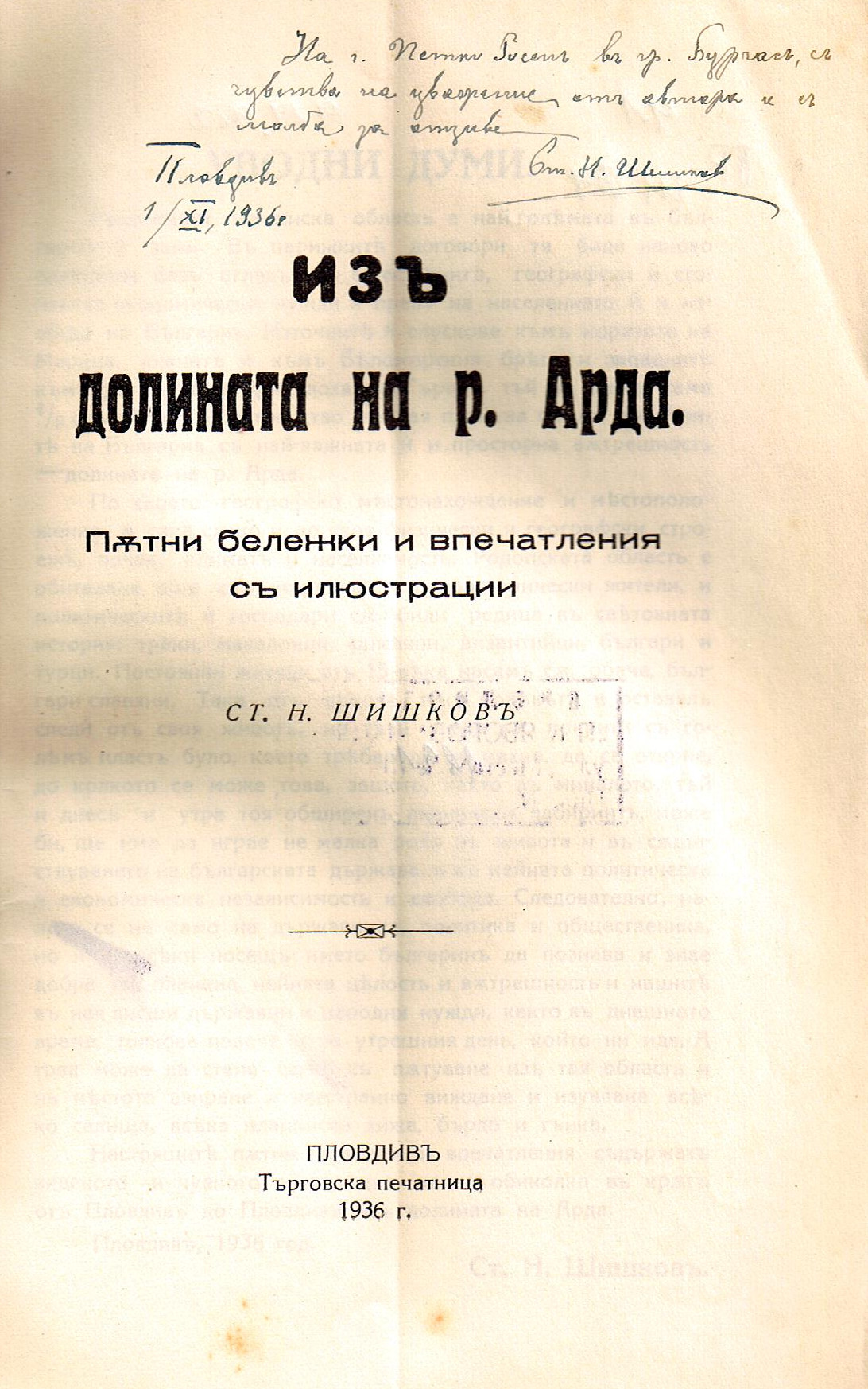 Title page of "Along the valley of Arda River" by Stoyu Shishkov, with author's signature